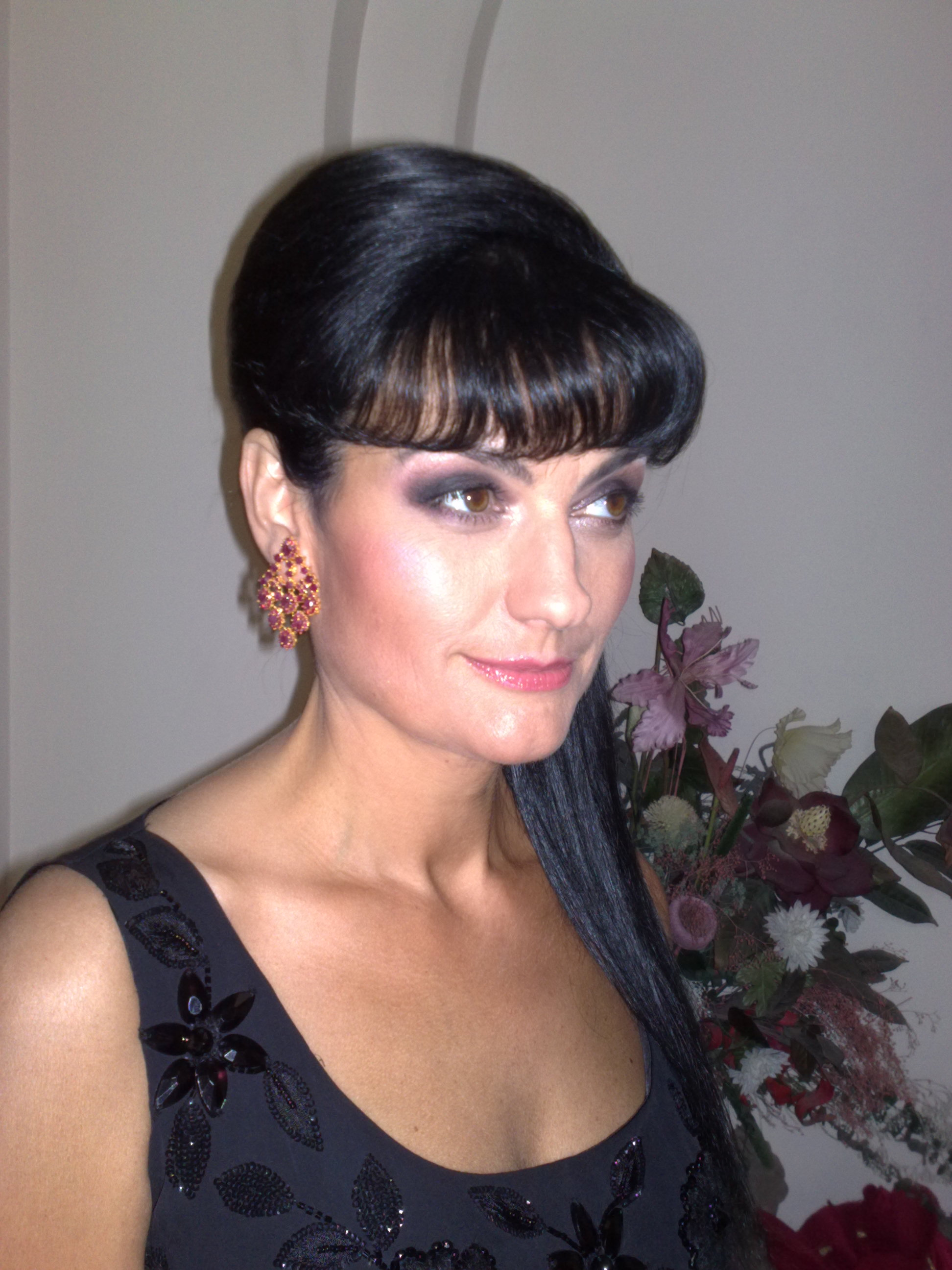 Elena Masyuk.